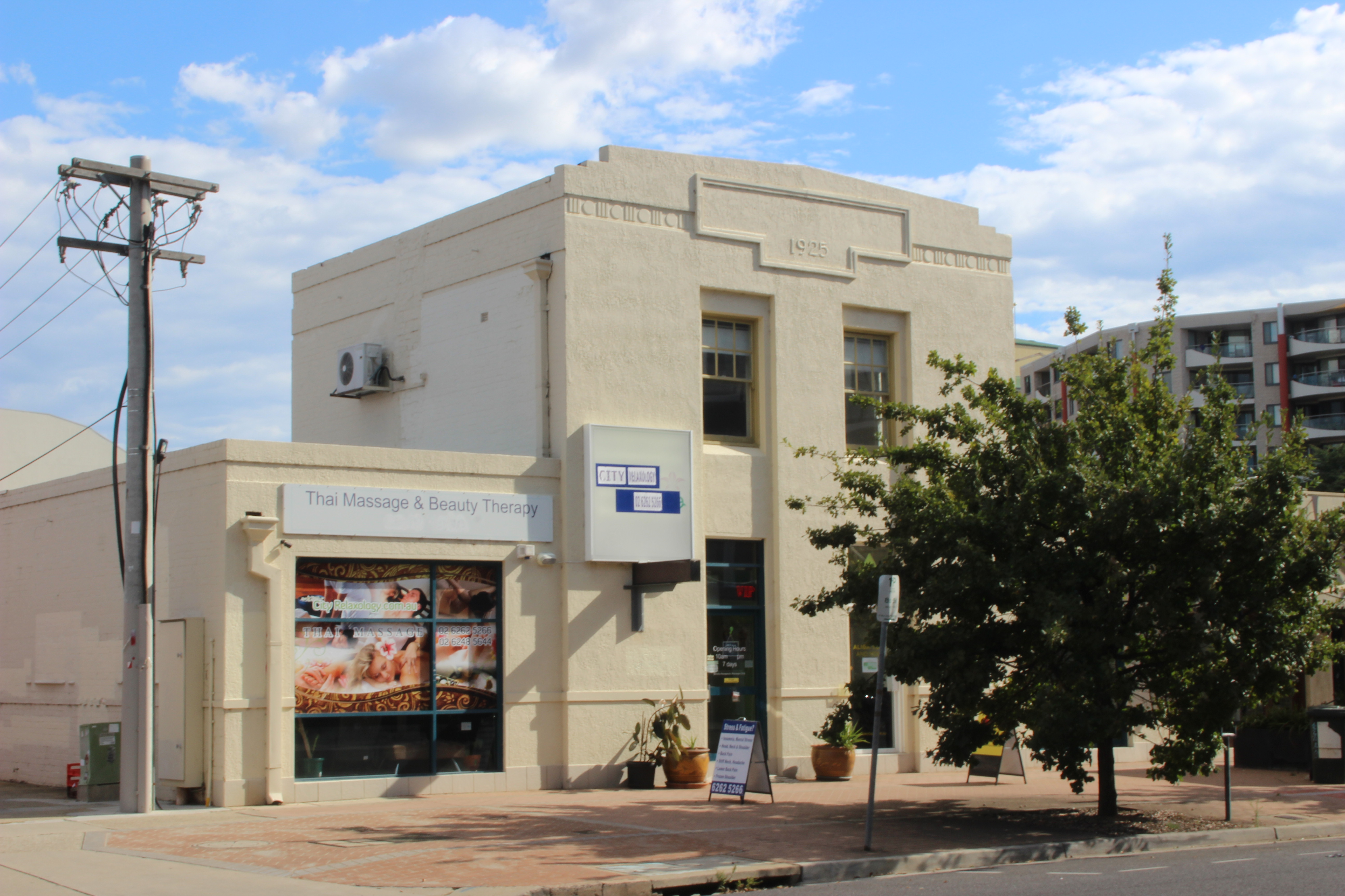 Old business in Braddon, Elouera Street